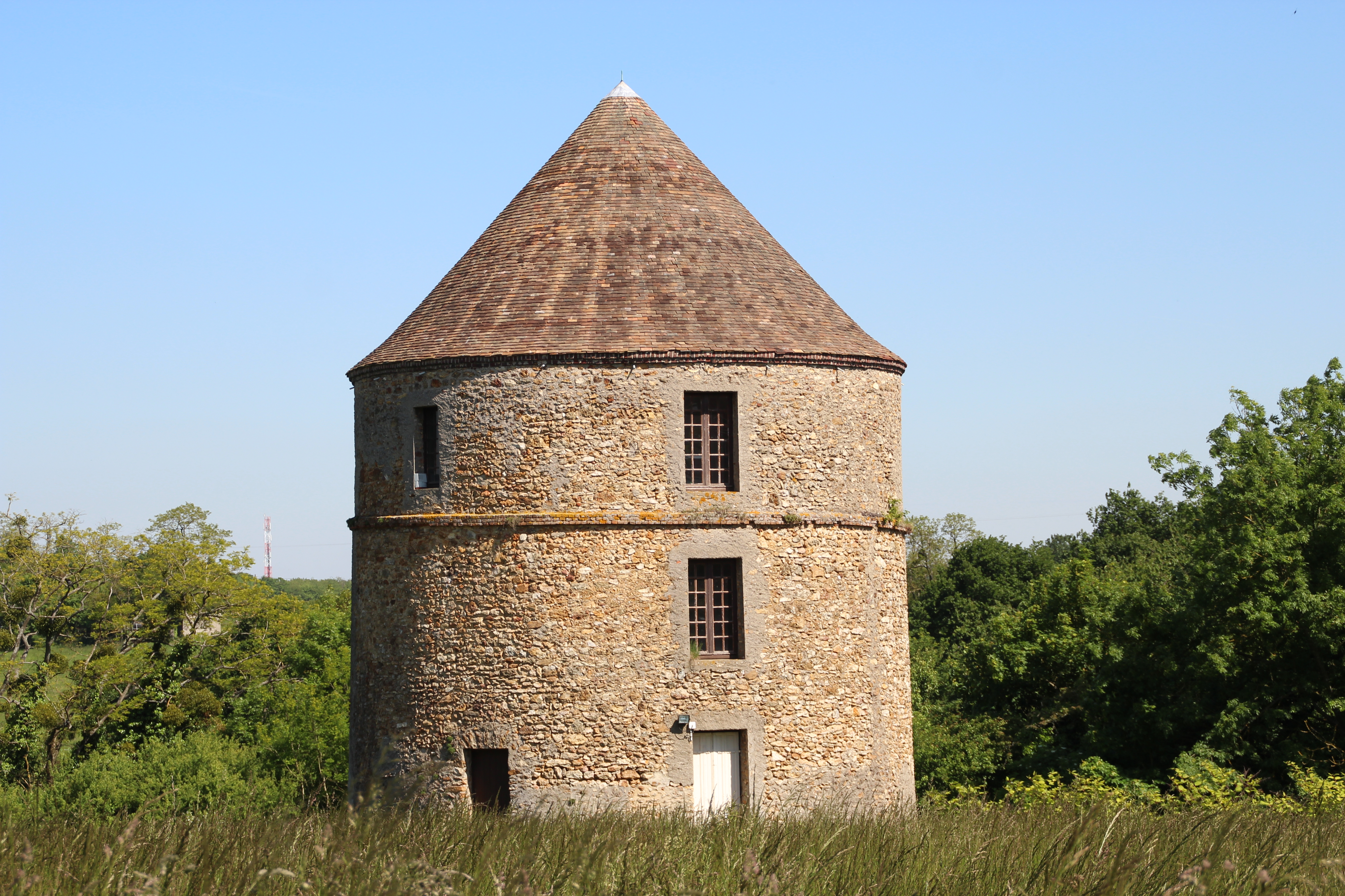 View of Vauhallan, France. Object location48° 44′ 02.9″ N, 2° 12′ 26.64″ E This picture as been uploaded as part of L'Été des régions Wikipédia.